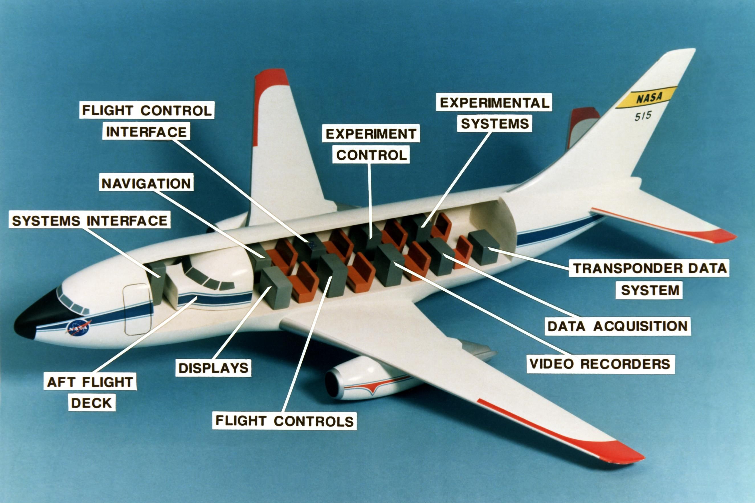 Since it first entered the NASA inventory in 1974, NASA 515 has been a testbed for research into a multitude of issues affecting aircraft safety, efficiency and capacity. It goes beyond the typical research facility in that it demonstrates new concepts in real-world situations. The aircraft has been modified to include a second flight deck positioned behind in what was the aircraft's first-class cabin section. In addition, the B-737 has rows of computer consoles and data collection stations where researchers monitor real-time flight results. This picture of the cutaway model of the B-737 shows the general layout of the aft flight deck and the research stations in the aircraft.